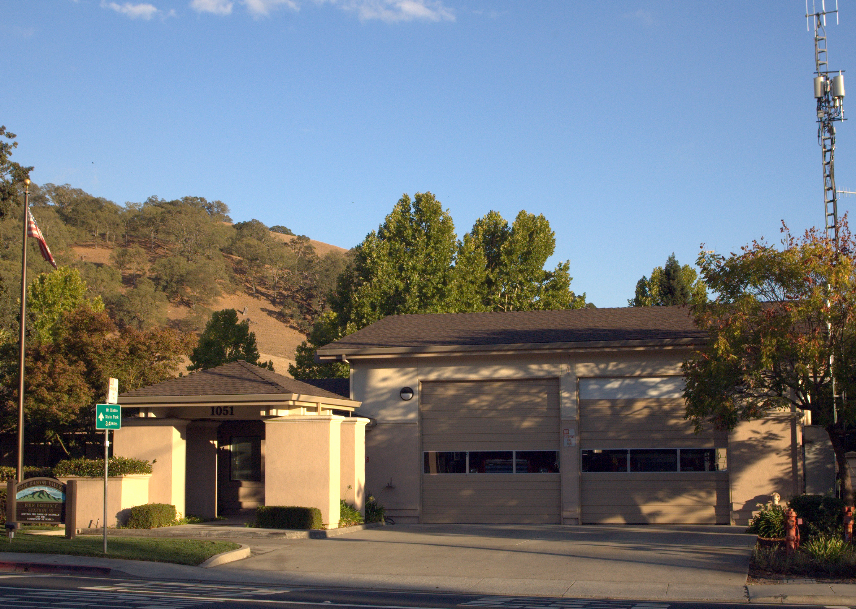 San Ramon Valley Fire Protection District. Station #33. Danville, CA.